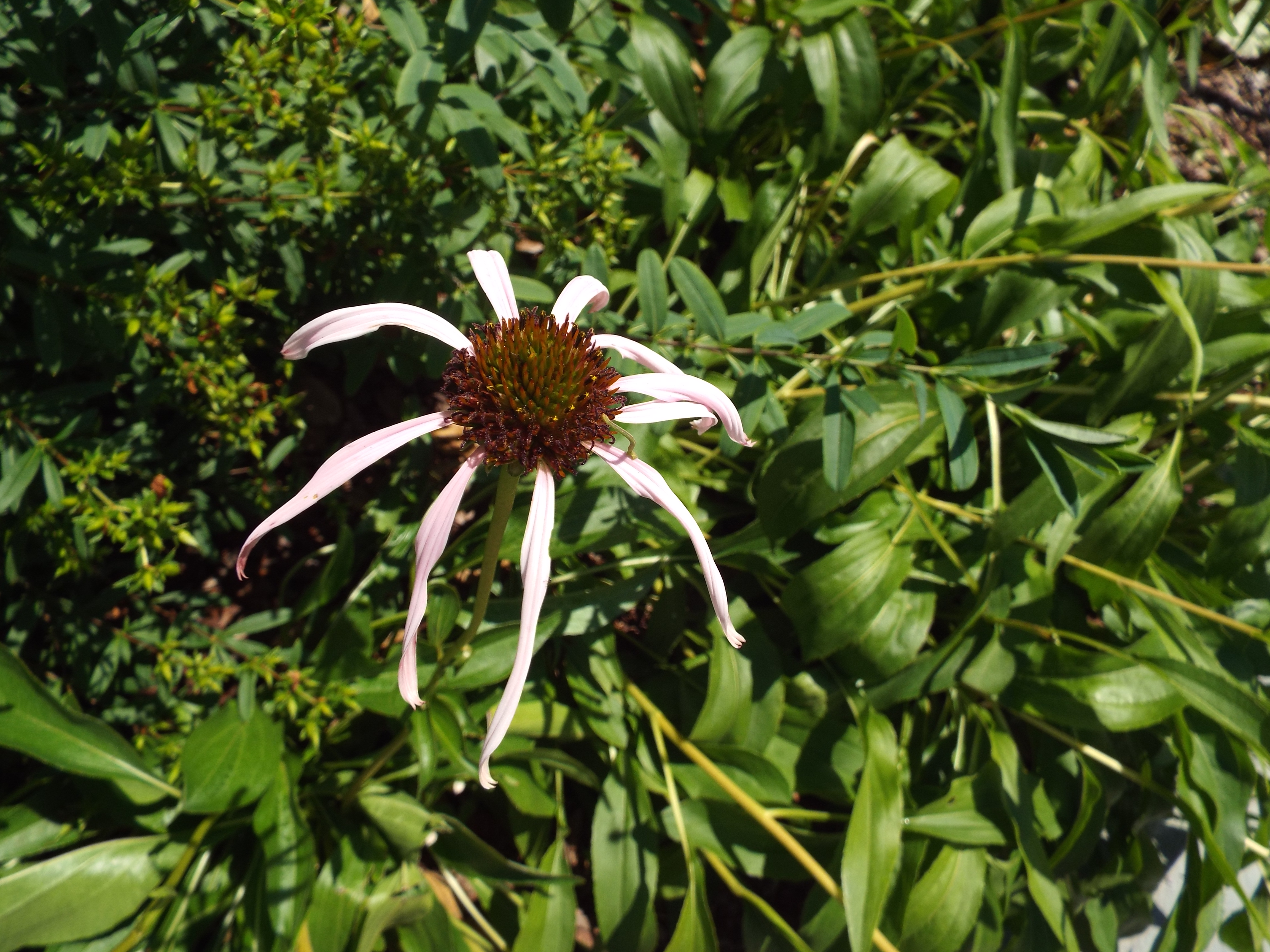 Echinacea laevigata flower and leaves